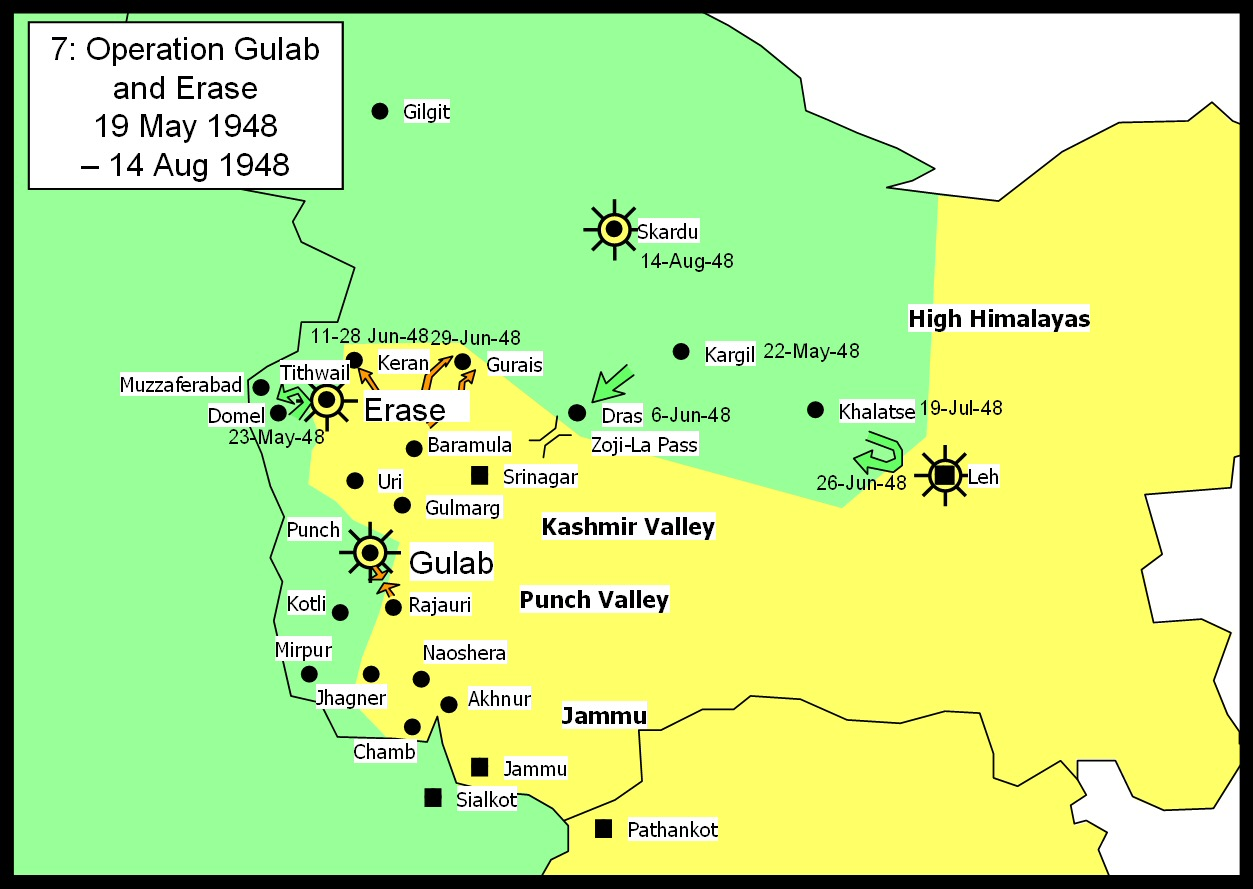 Author Mike Young